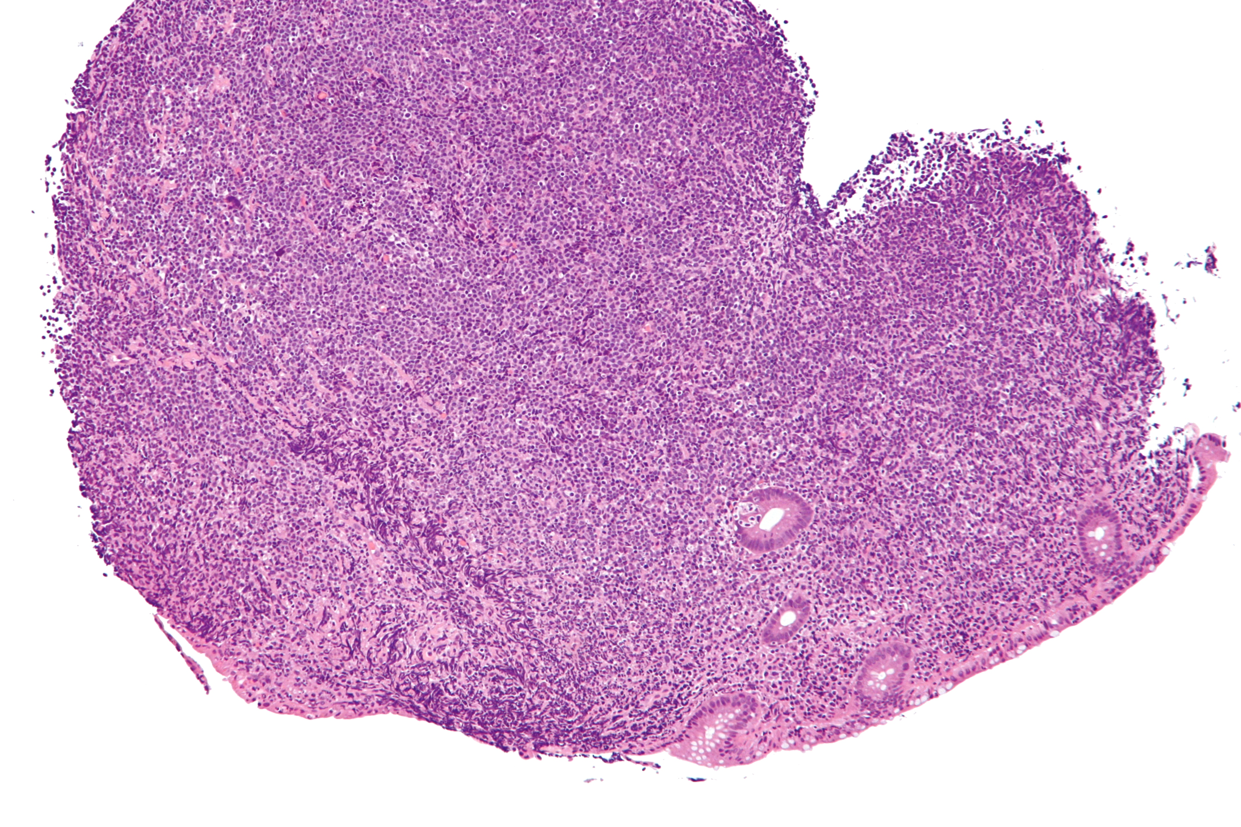 Intermediate magnification micrograph of a lymphoepithelial lesion of the gastrointestinal tract in the setting of a primary gastrointestinal tract lymphoma. H&E stain. Colonic biopsy (descending colon). Lymphoepithelial lesions are strongly associated with mucosa-associated lymphoid tissue lymphomas (MALT lymphomas); however, they may appear in other types of lymphomas. Related images Very low mag. Low mag. High mag. Very high mag.